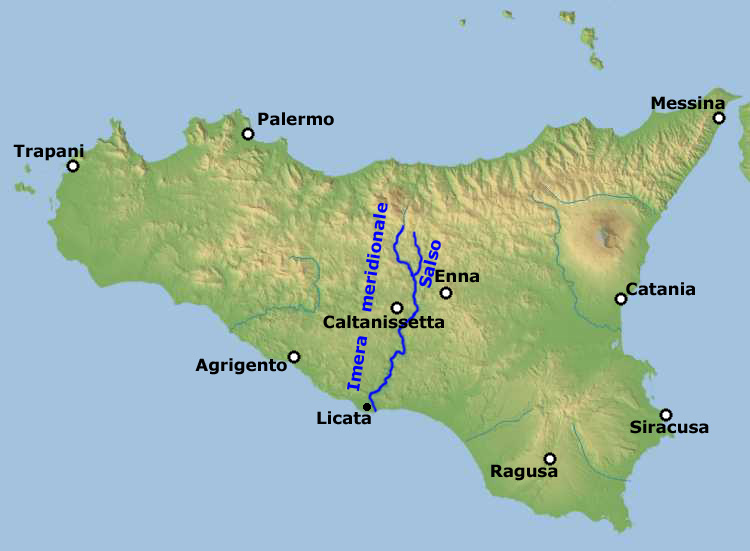 Physical map of Sicily, equirectangular cylindrical projection, including the course of river Imera meridionale (also called Salso) with its two source rivers Imera meridionale and Salso